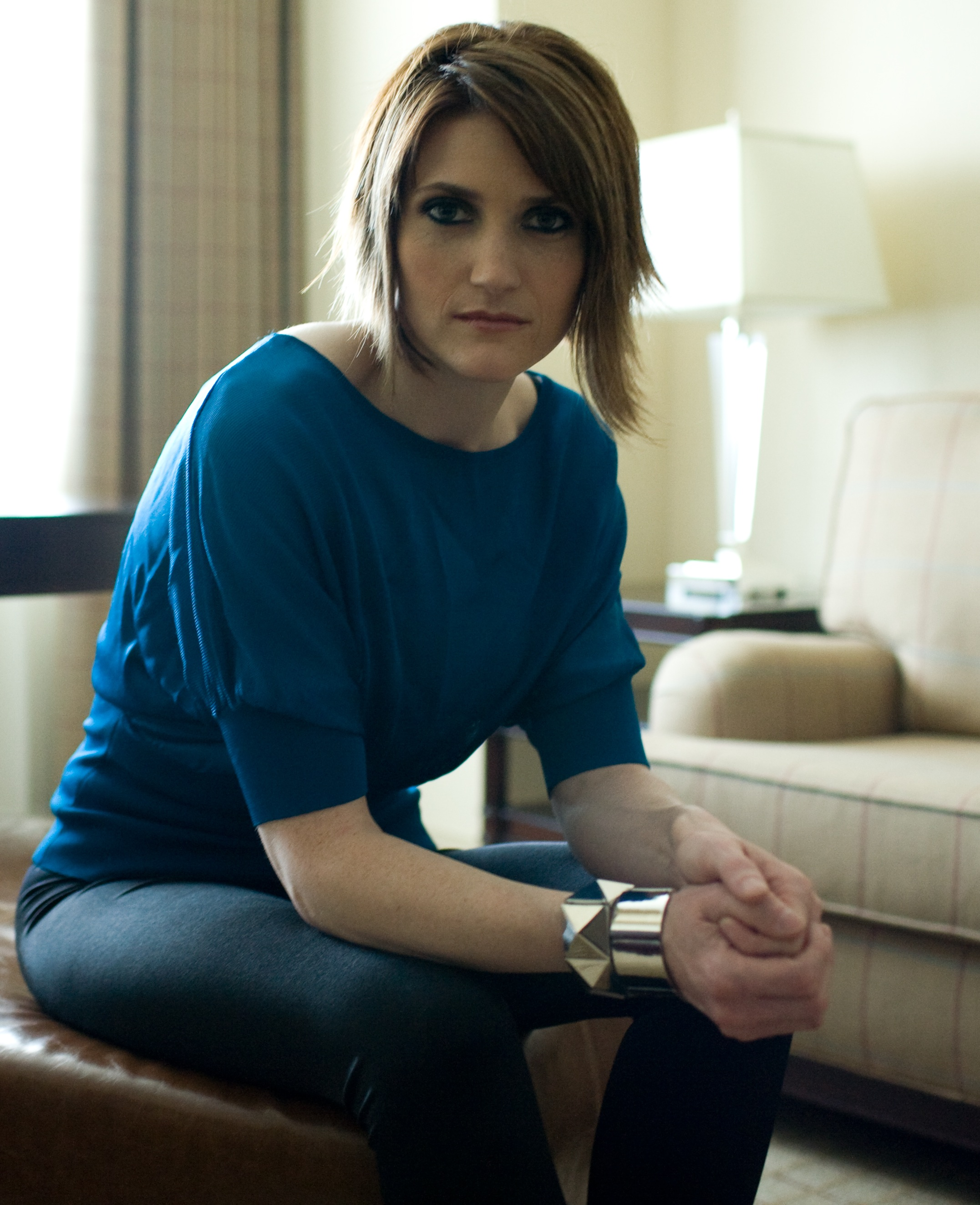 Lead assistant Kim Hess, assistant to illusionist [Jason Bishop]